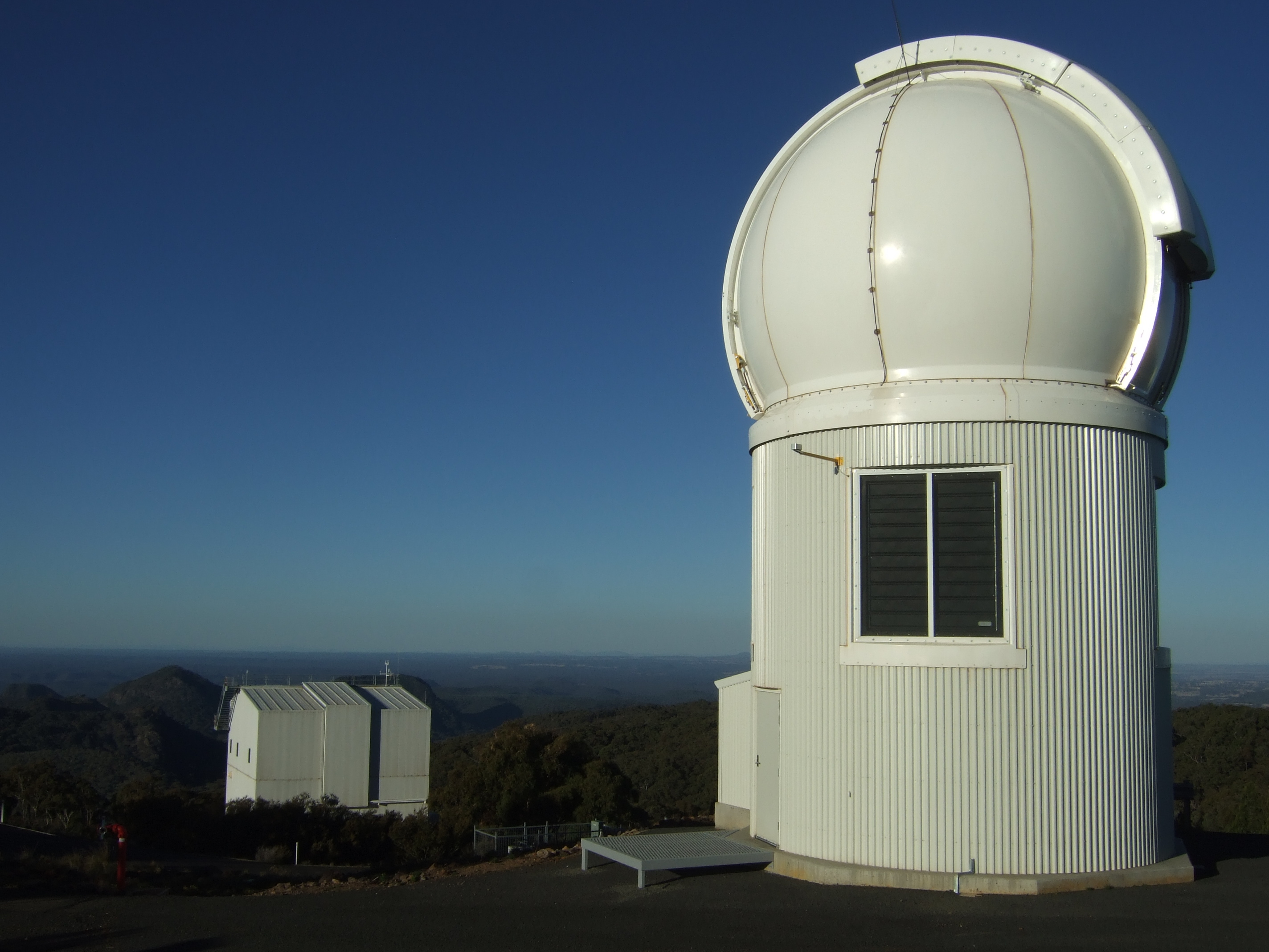 The SkyMapper telescope at Siding Spring Observatory and the 2.3 m telescope in the background.